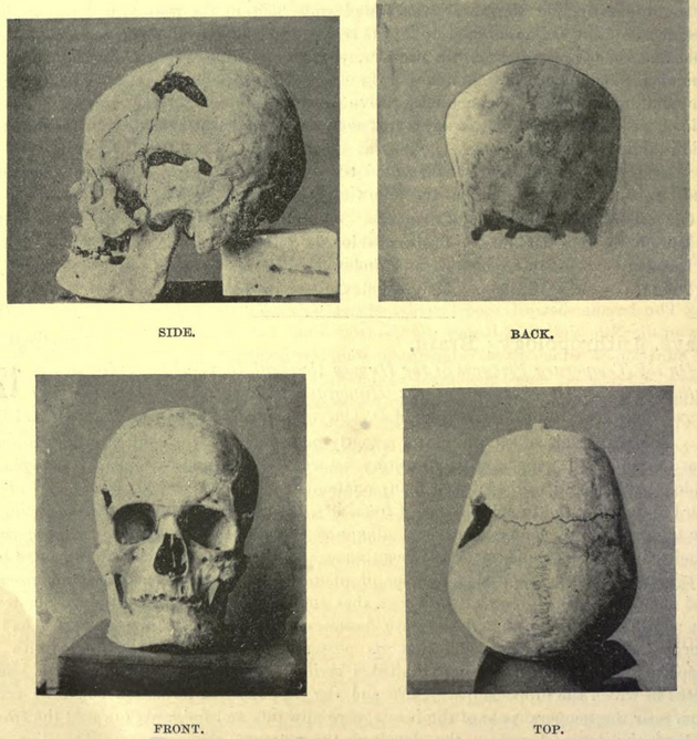 Possible skull of the ancient Egyptian Pharaoh Hen Nekht/Hennekht (Sanakht), from the large mastaba K2 at Beit Khallaf.